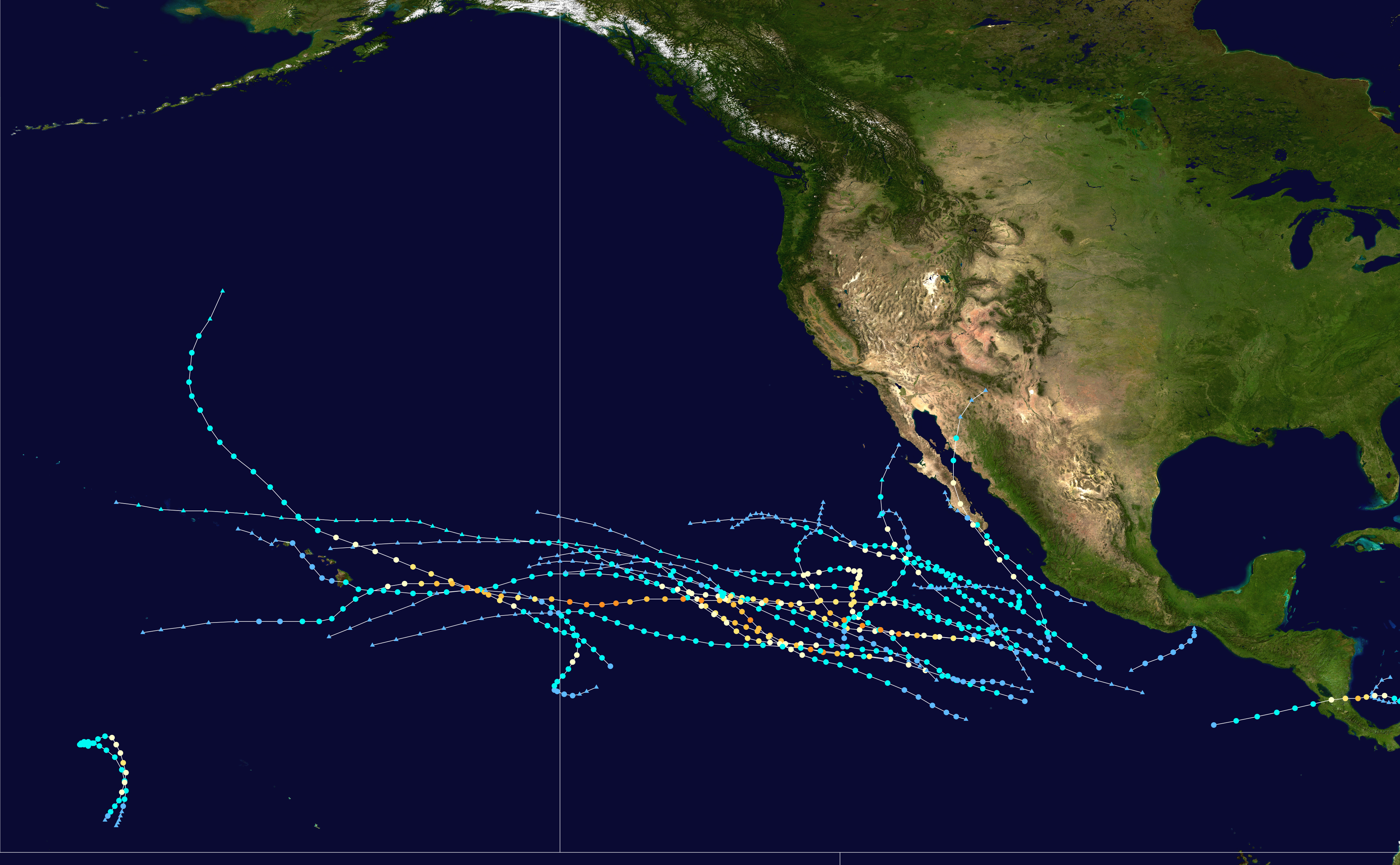 This map shows the tracks of all tropical cyclones in the 2016 Pacific hurricane season. The points show the location of each storm at 6-hour intervals. The colour represents the storm's maximum sustained wind speeds as classified in the Saffir-Simpson Hurricane Scale (see below), and the shape of the data points represent the type of the storm. Saffir–Simpson scale Tropical depression≤38 mph≤62 km/h Category 3111–129 mph178–208 km/h Tropical storm39–73 mph63–118 km/h Category 4130–156 mph209–251 km/h Category 174–95 mph119–153 km/h Category 5≥157 mph≥252 km/h Category 296–110 mph154–177 km/h Unknown Storm type Tropical cyclone Subtropical cyclone Extratropical cyclone / Remnant low / Tropical disturbance / Monsoon depression